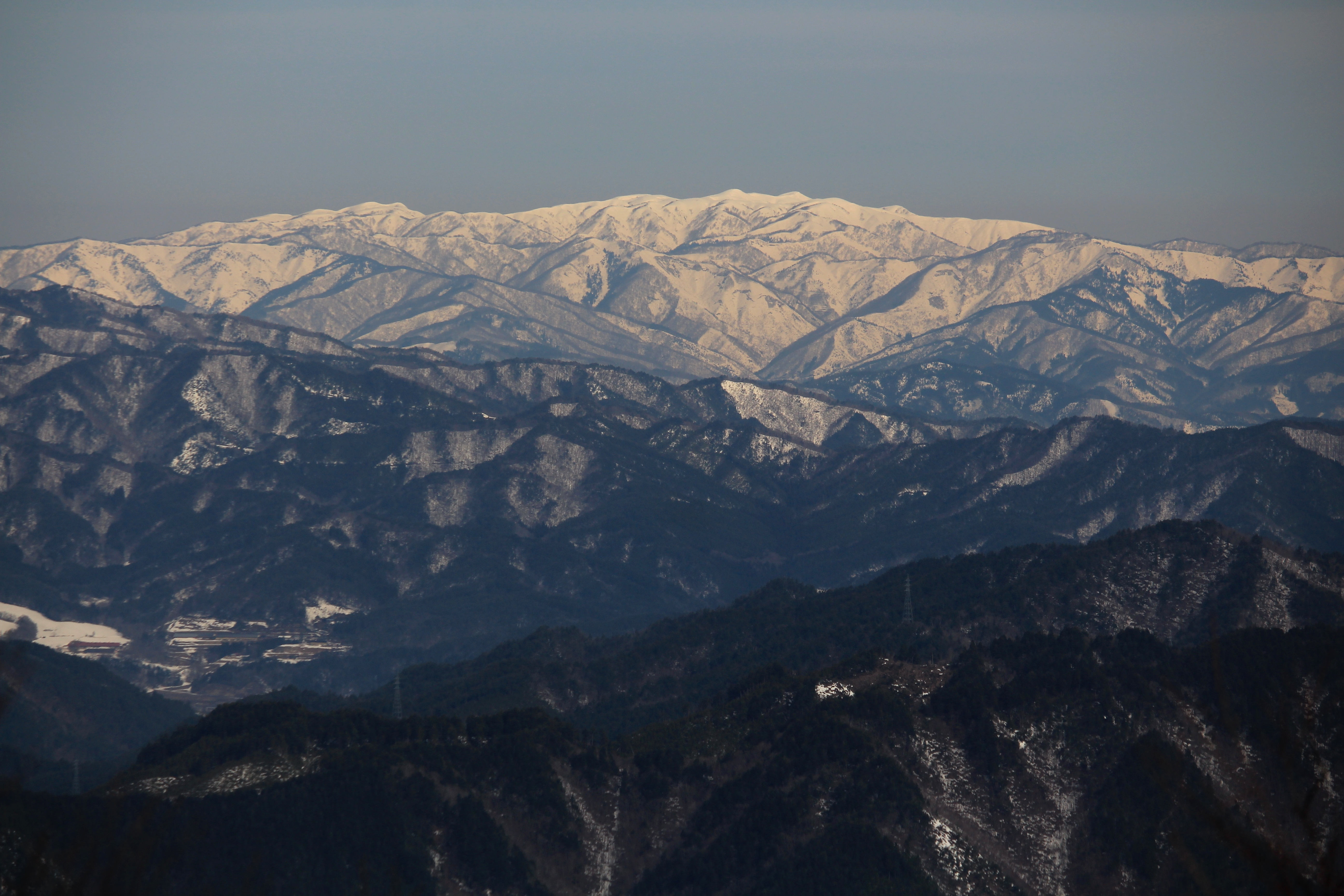 Mount Kongōdō seen from Mount Funa in Gifu prefecture, Japan.